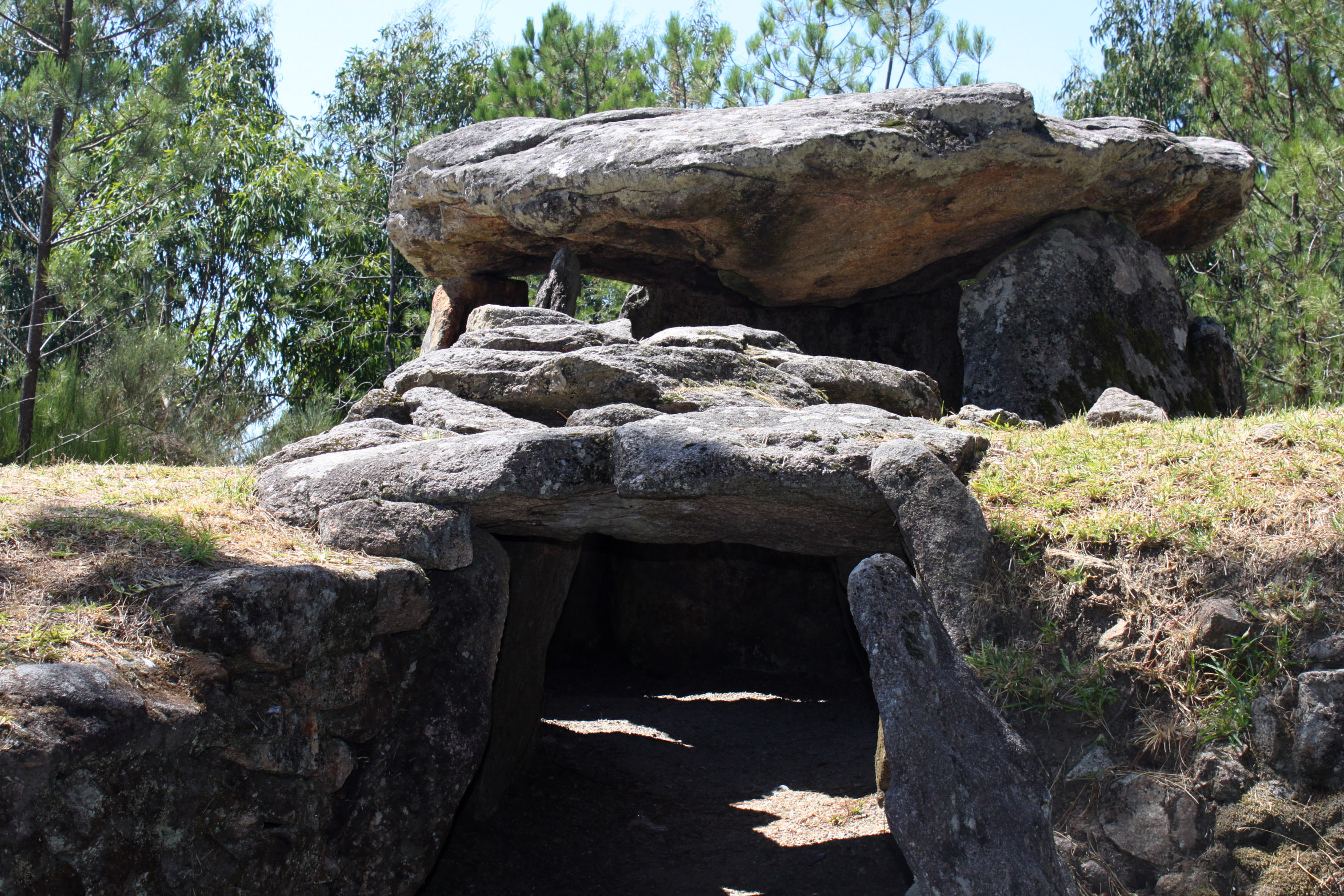 This file was uploaded for Wiki Loves Monuments in Portugal with the unique identifier 74385.